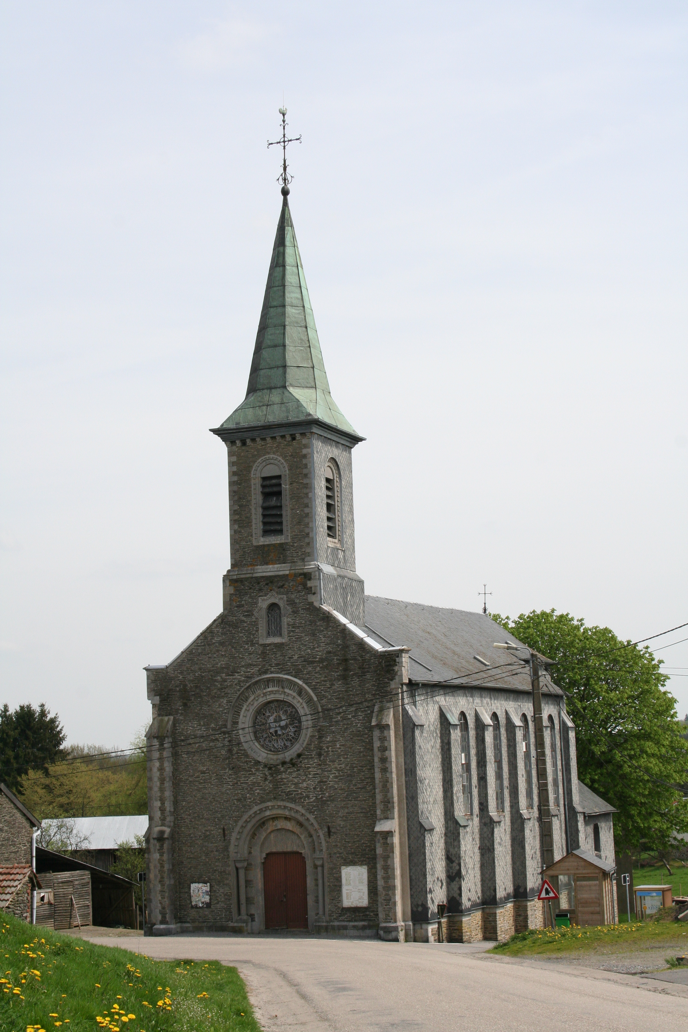 Petit-Fays (Belgium), the St. Barbe church (1877-1879).